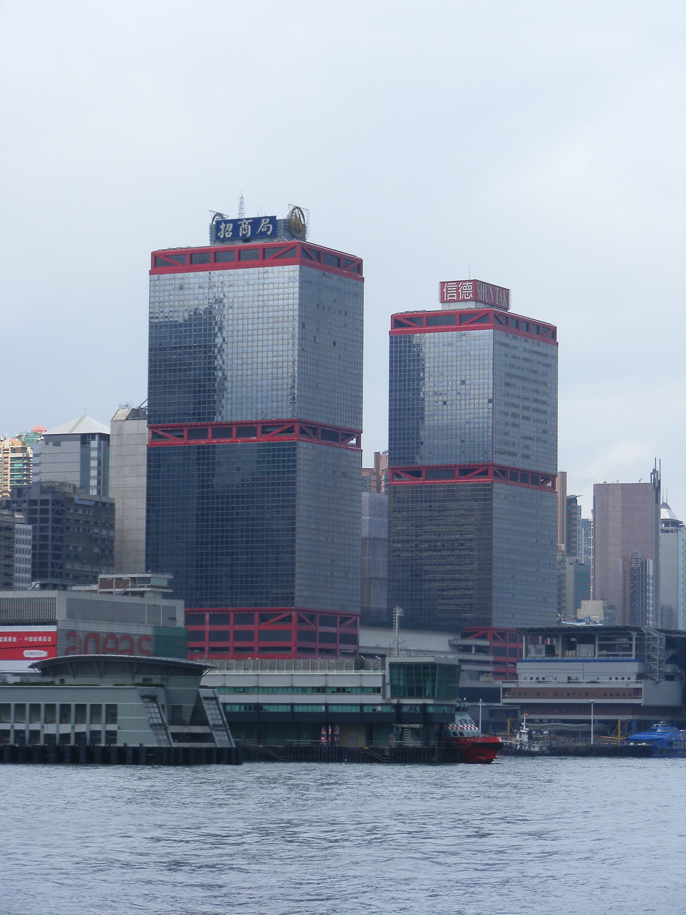 Hong Kong